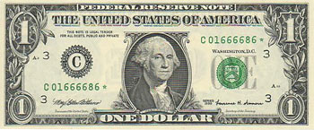 Star note